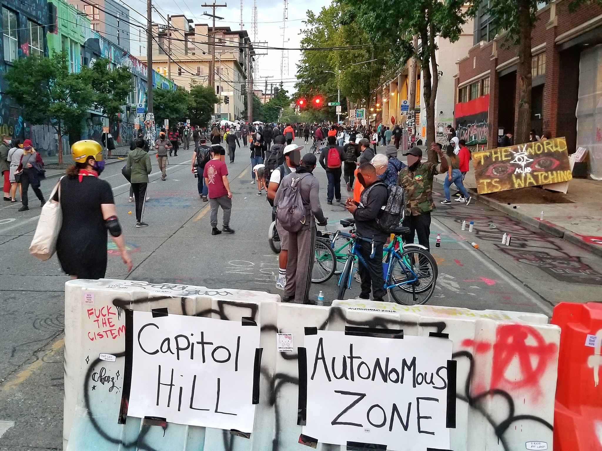 Barrier used in the standoff between police and protesters prior to the establishment of CHAZ with residents and visitors in the background.